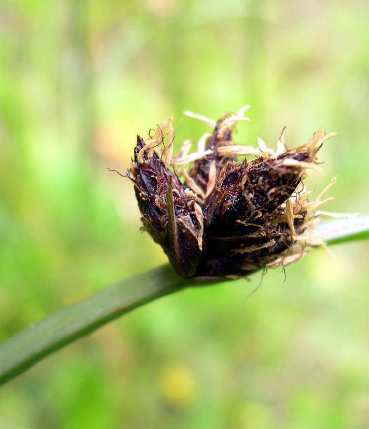 Schoenoplectus pungens at Humboldt Bay National Wildlife Refuge Complex, California, USA